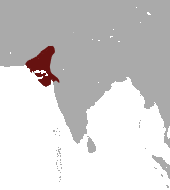 Indian Hedgehog (Paraechinus micropus) range